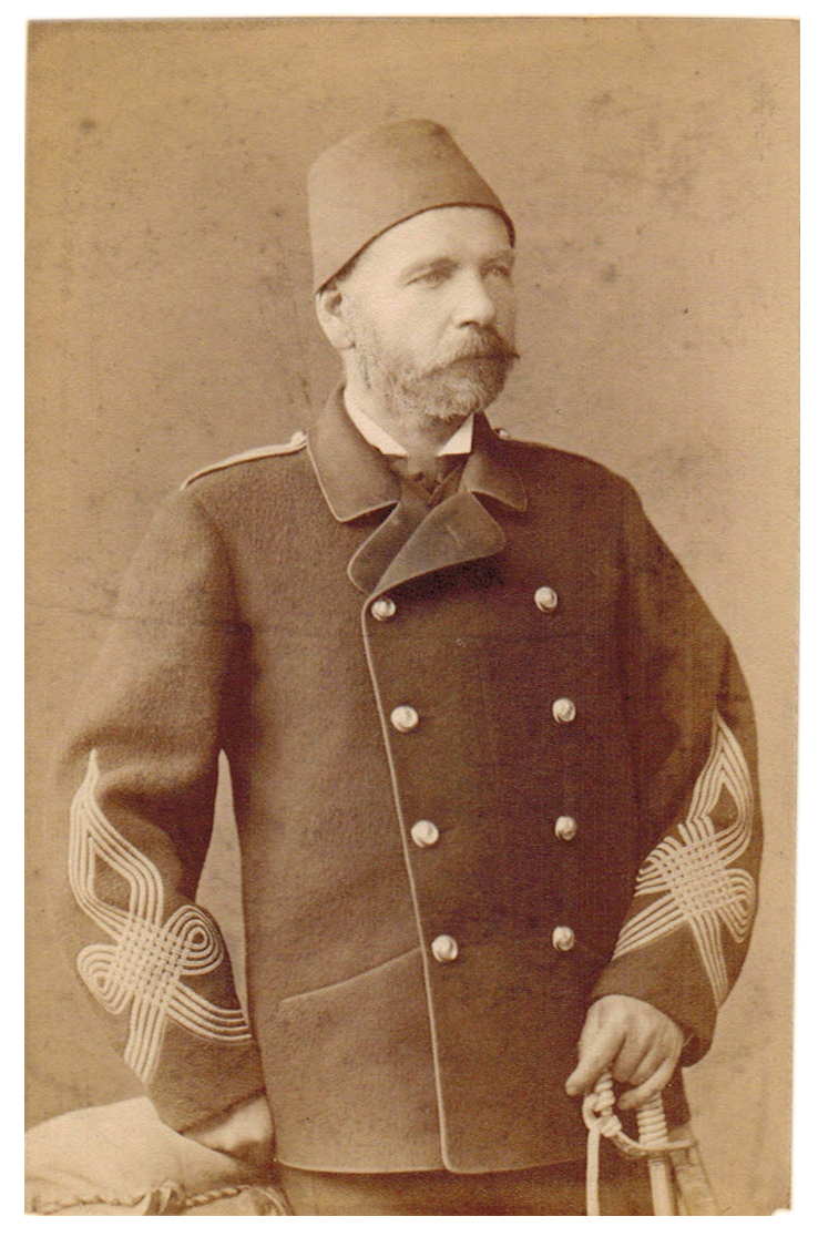 Müşir Mehmed Ali Pasha (November 18, 1827 – September 7, 1878 was a German-born Ottoman career officer and marshal. He was the grandfather of the Turkish statesman Ali Fuat Cebesoy, and the great-grandfather of famous poets Nâzım Hikmet and Oktay Rıfat Horozcu and the socialist activist, lawyer, and athlete Mehmet Ali Aybar.